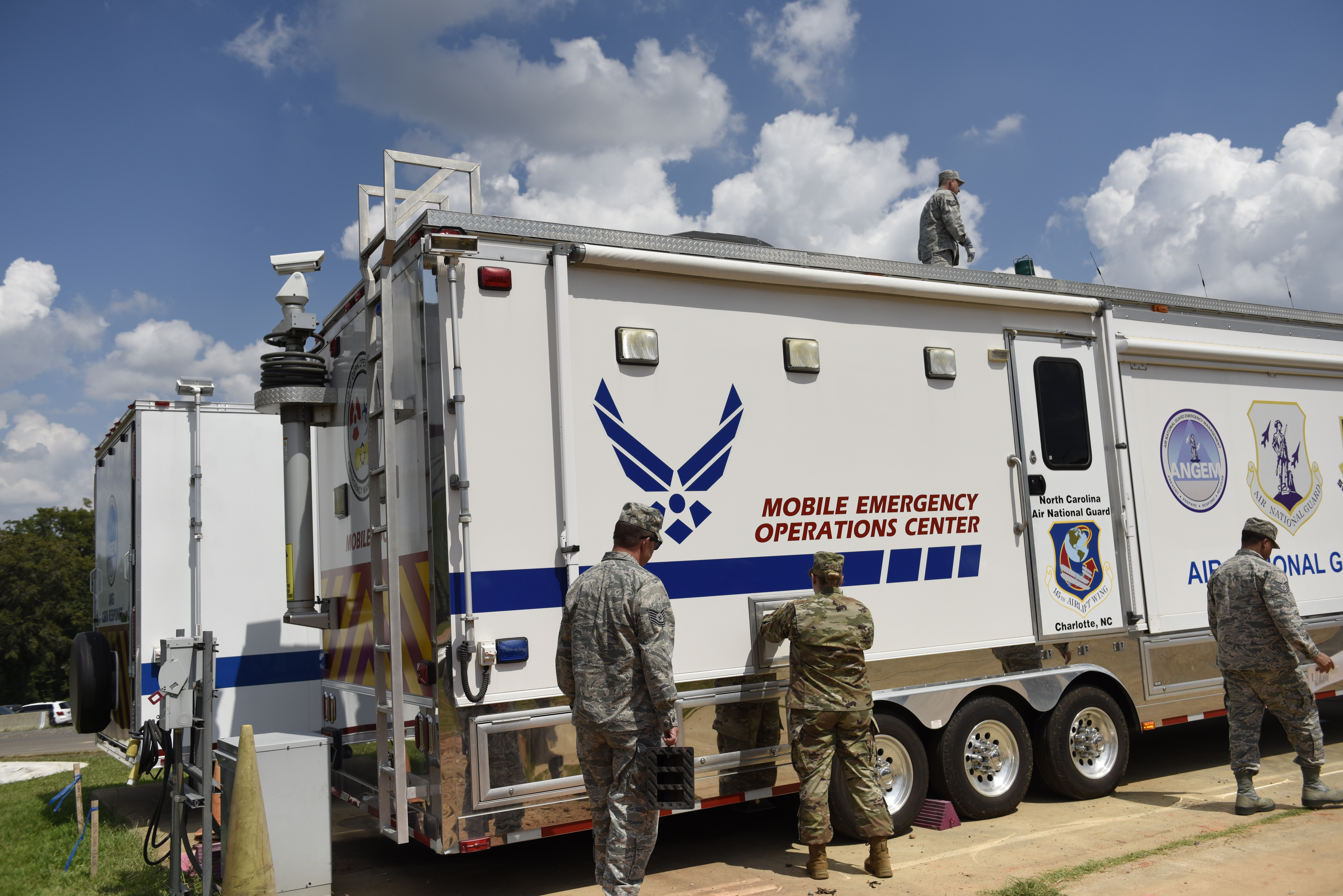 Members of the North Carolina National Guard's 145th Airlift Wing Emergency Response Team prepare the Mobile Emergency Operations Center (MEOC) for activation in response to Hurricane Dorian, while at the North Carolina Air National Guard Base, Charlotte Douglas International Airport, Sept 3, 2019. Hurricane Dorian is a category 2 storm expected to make landfall in North Carolina later in the week, the MEOC provides comprehensive communications via mobile satellite and cellular capabilities that allow first responders to communicate from remote locations. (Photo by Master Sgt. Nathan Clark)